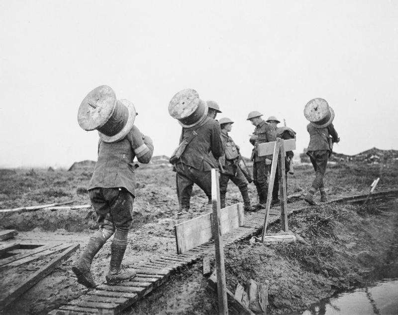 Battle of Poelcappelle 9 October 1917 : Royal Engineers taking drums of telephone wire along a duck board path up to the front between Pilckem and Langemarck.